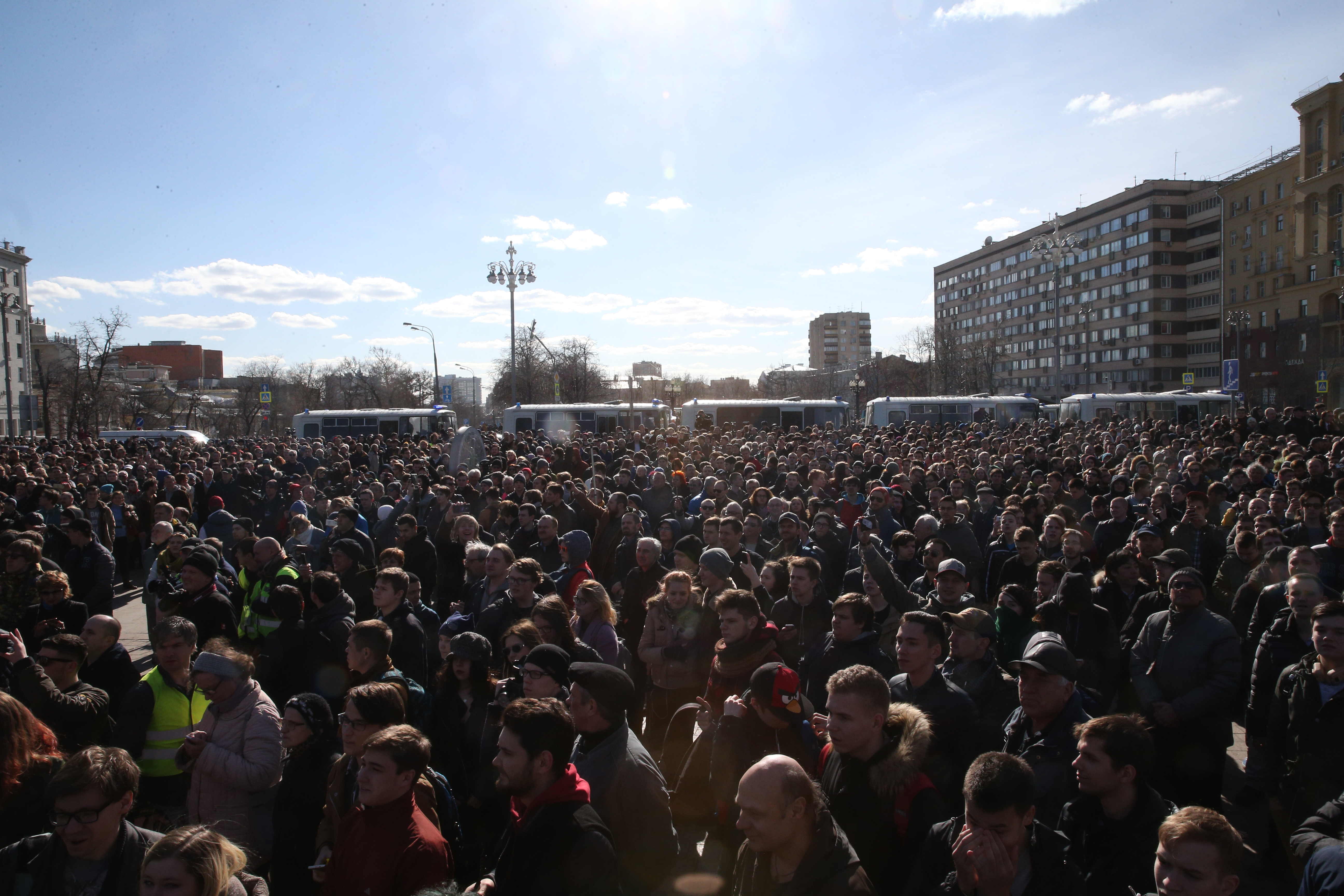 Protesters gather on Pushkinskaya square in Moscow